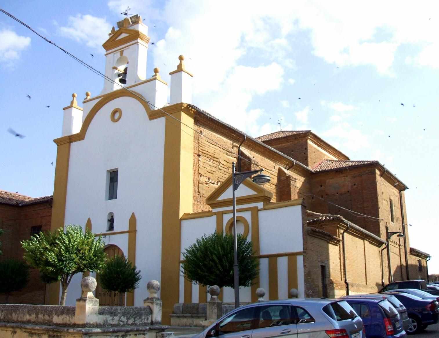 Iglesia de San Juan, Sahagún (León, España)